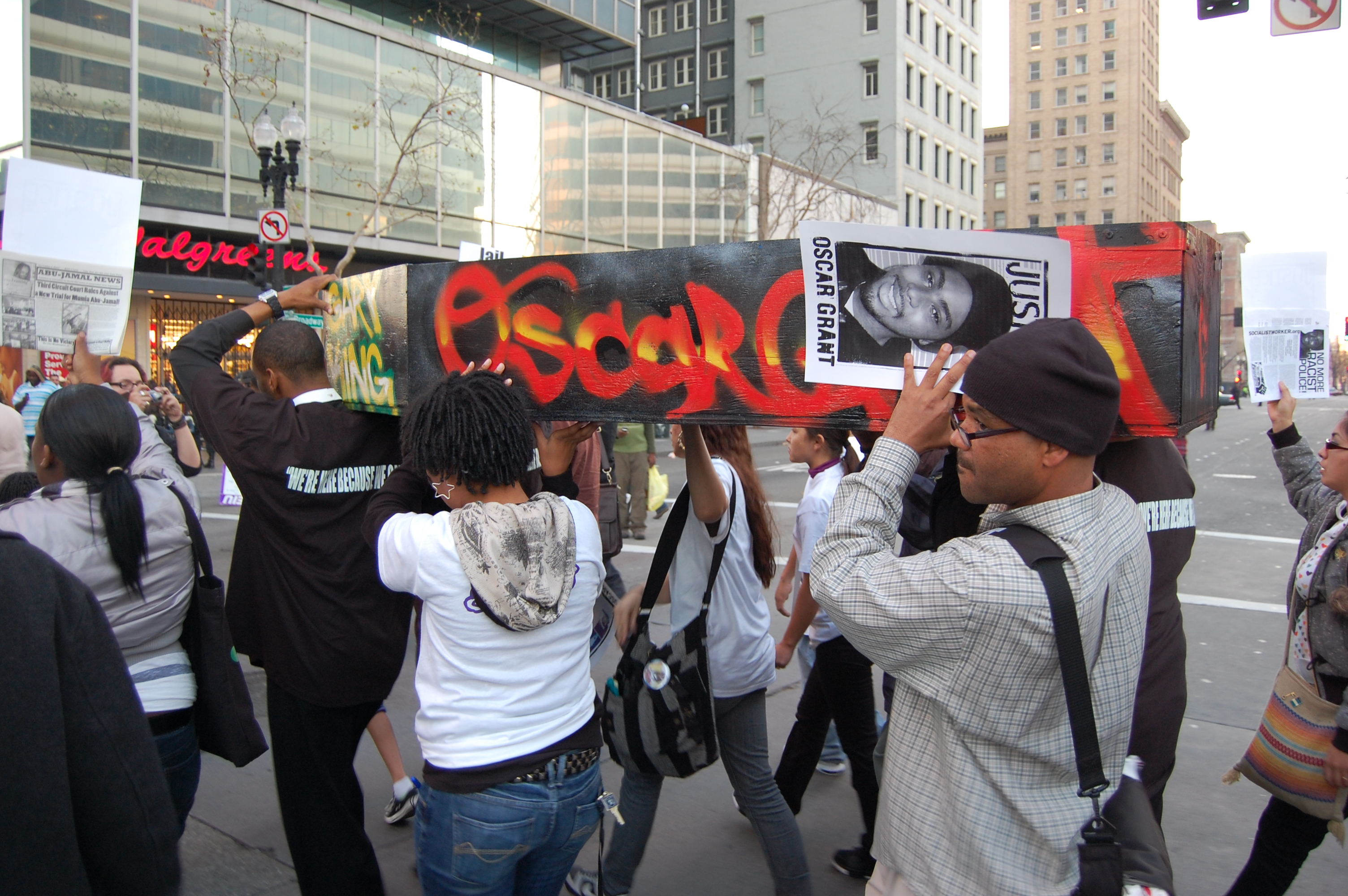 Demonstrators carry mock casket for Oscar Grant, shot by BART police New Year's Day.